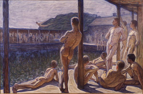 Not to be confused with: Bathhouse scene, 1908